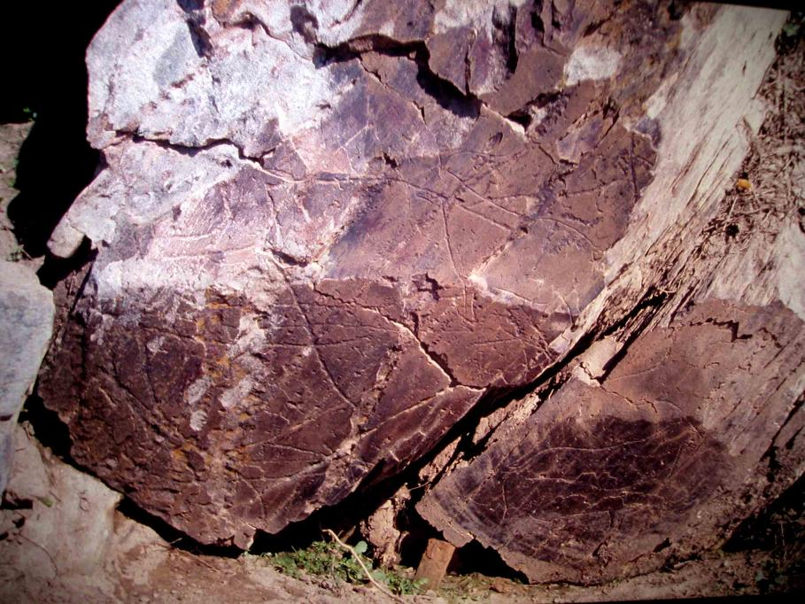 Rock Art – Paleolithic – Foz Côa - Portugal